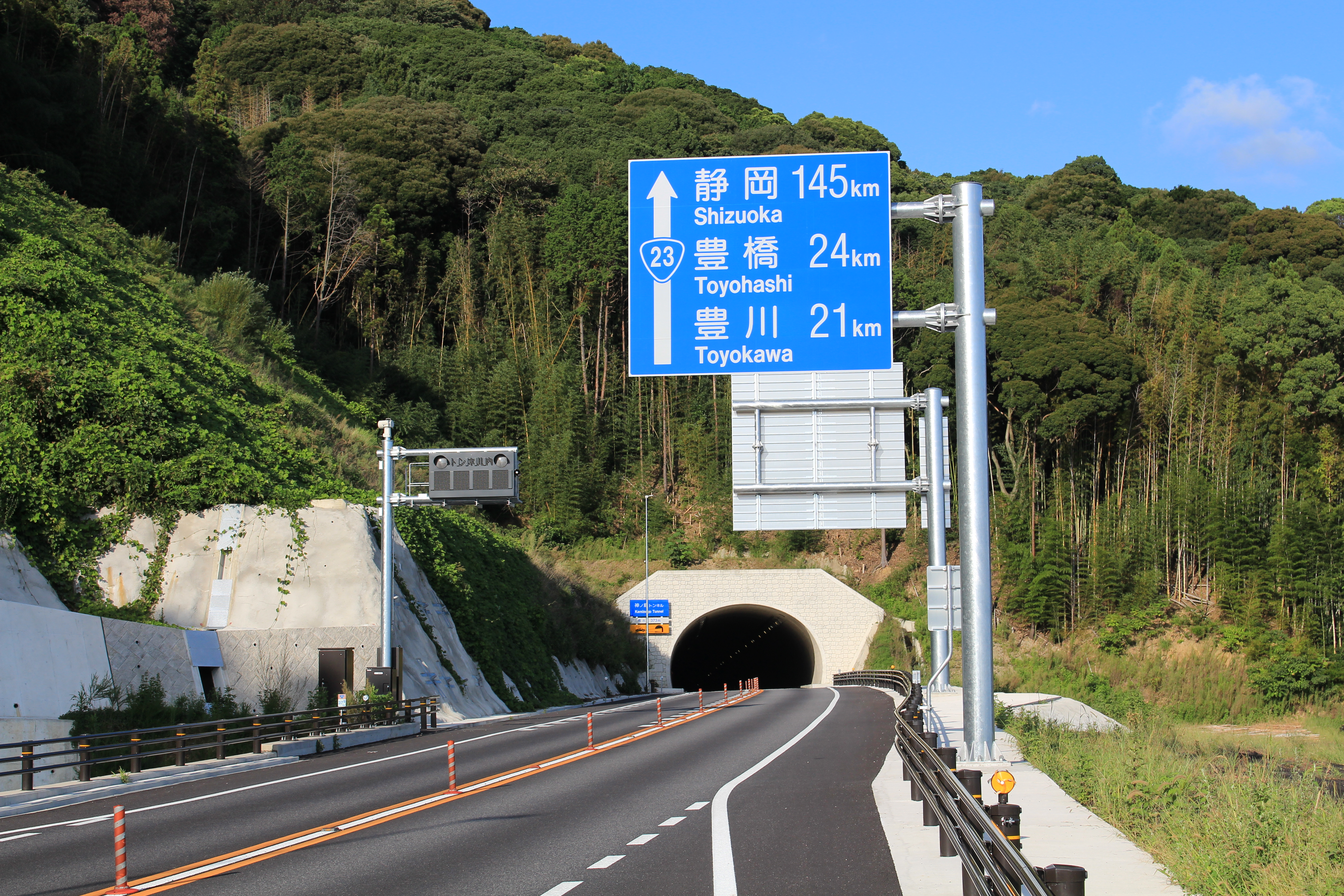 Kaminogoō Tunnel of Route 23 in Gamagōri, Aichi prefecture, Japan.